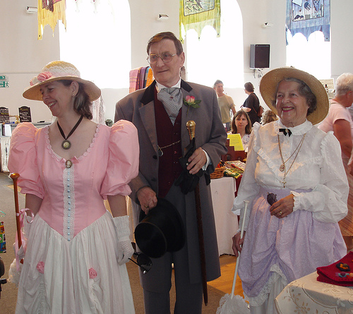 Image created by User:Frankpearson and released under the licence above.